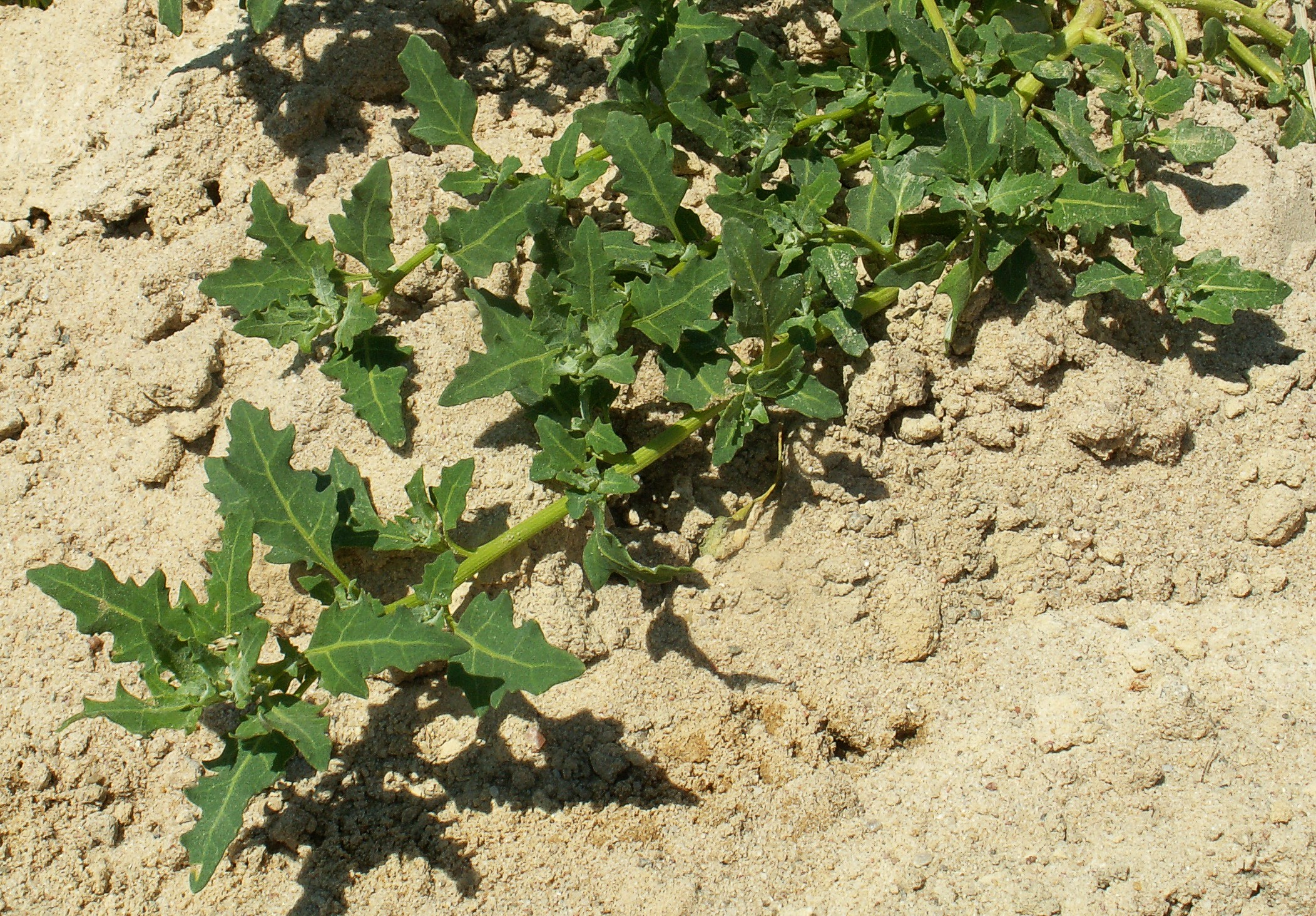 Chenopodium glaucum on sand beach on Miedwie Lake NW Poland